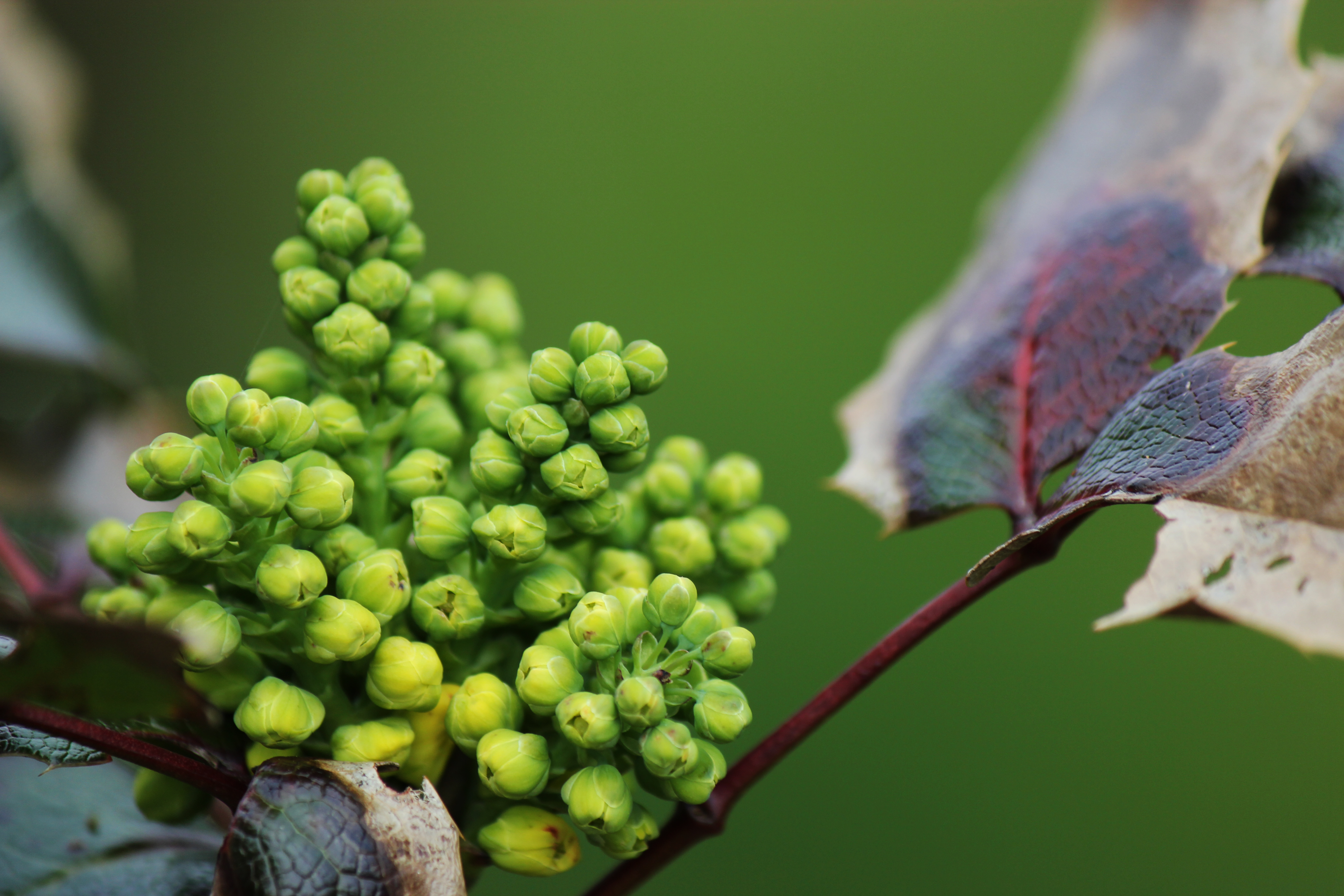 Oregon-grape (Mahonia aquifolium) buds in Sweden.